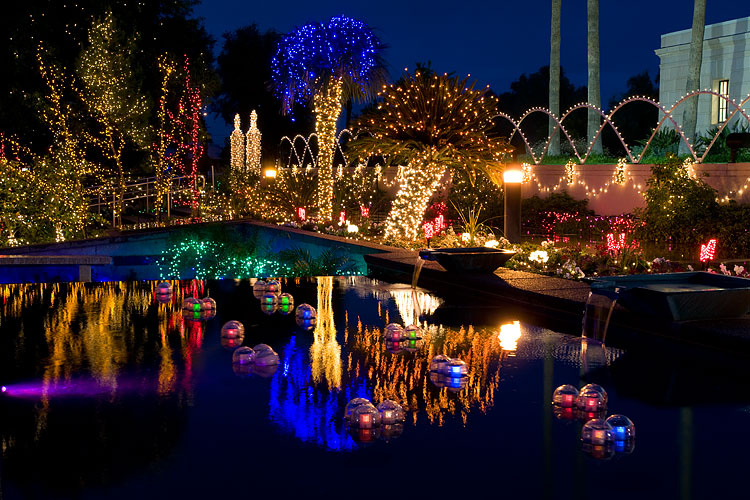 Mesa Arizona Temple grounds, decorated with Christmas lights displays.